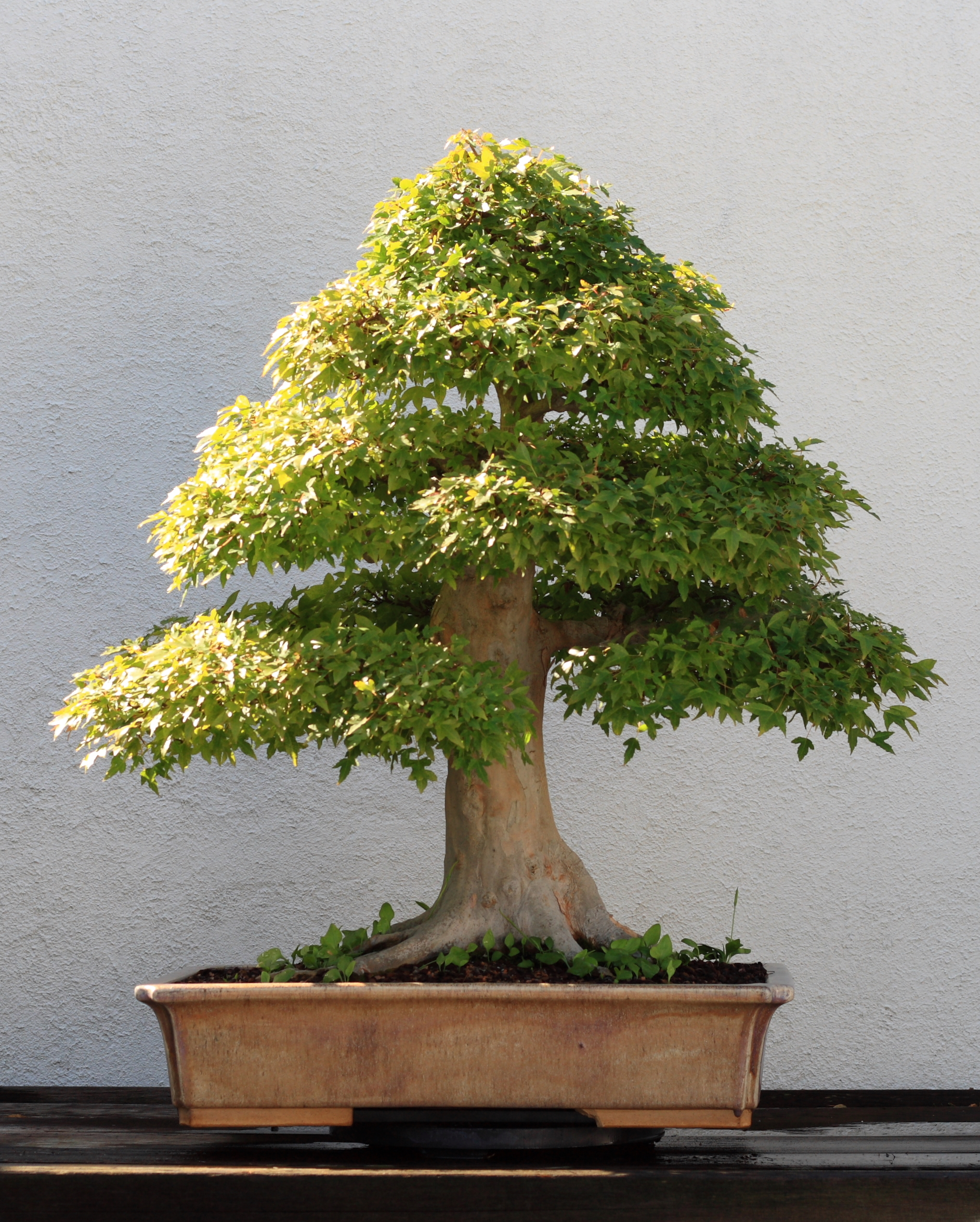 A Trident Maple (Acer buergerianum) bonsai, North American Collection 202, on display at the National Bonsai & Penjing Museum at the United States National Arboretum. According to the tree's display placard, it has been in training since 1975. It was donated by Ted C. Guyger.